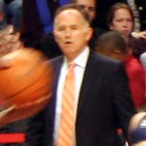 Jim O'Brien (basketball, born 1952), coach of the Indiana Pacers in December 2009